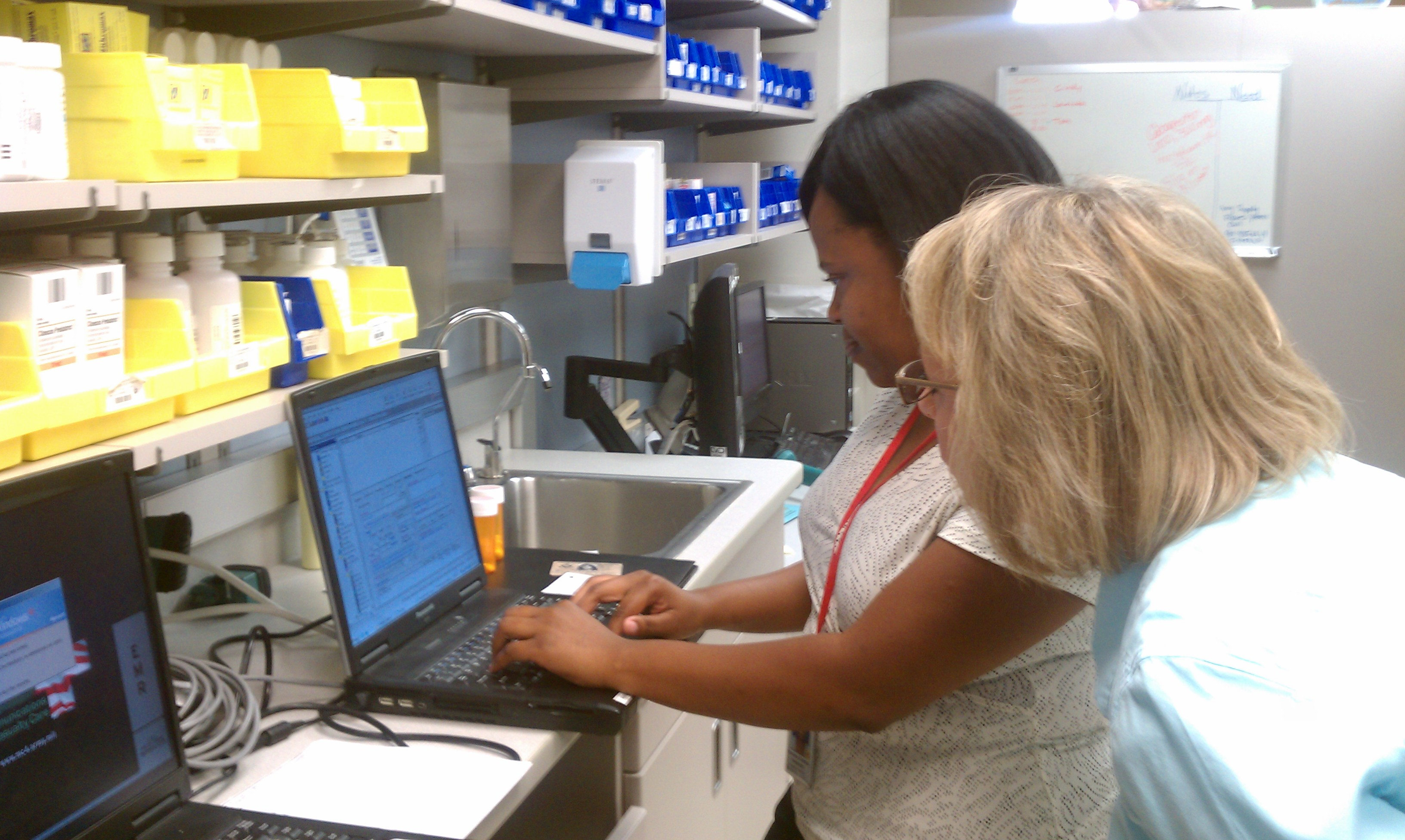 During a scheduled power outage, the pharmacy at the Winn Community Hospital continues electronic medical prescription service with assistance from MC4.